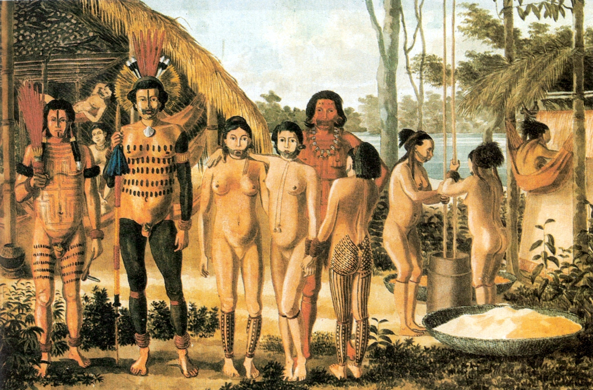 Apiaká indians, in Arinos river, Mato Grosso, Brazil.